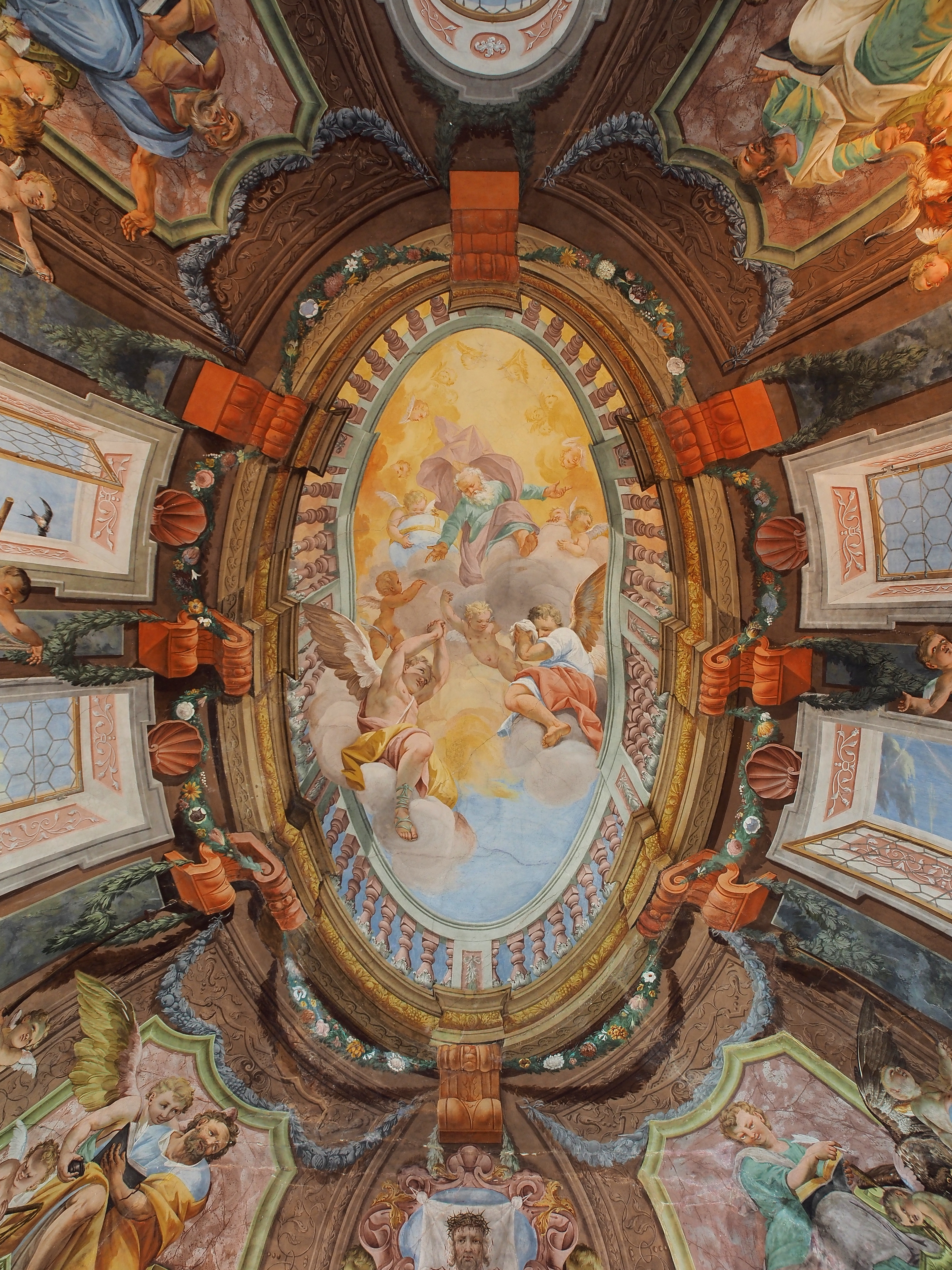 Chapel ceiling of Brežice castle, Brežice, Slovenia. This photograph was taken with a Olympus E-P5.